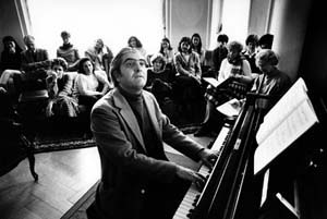 Fausto Zadra